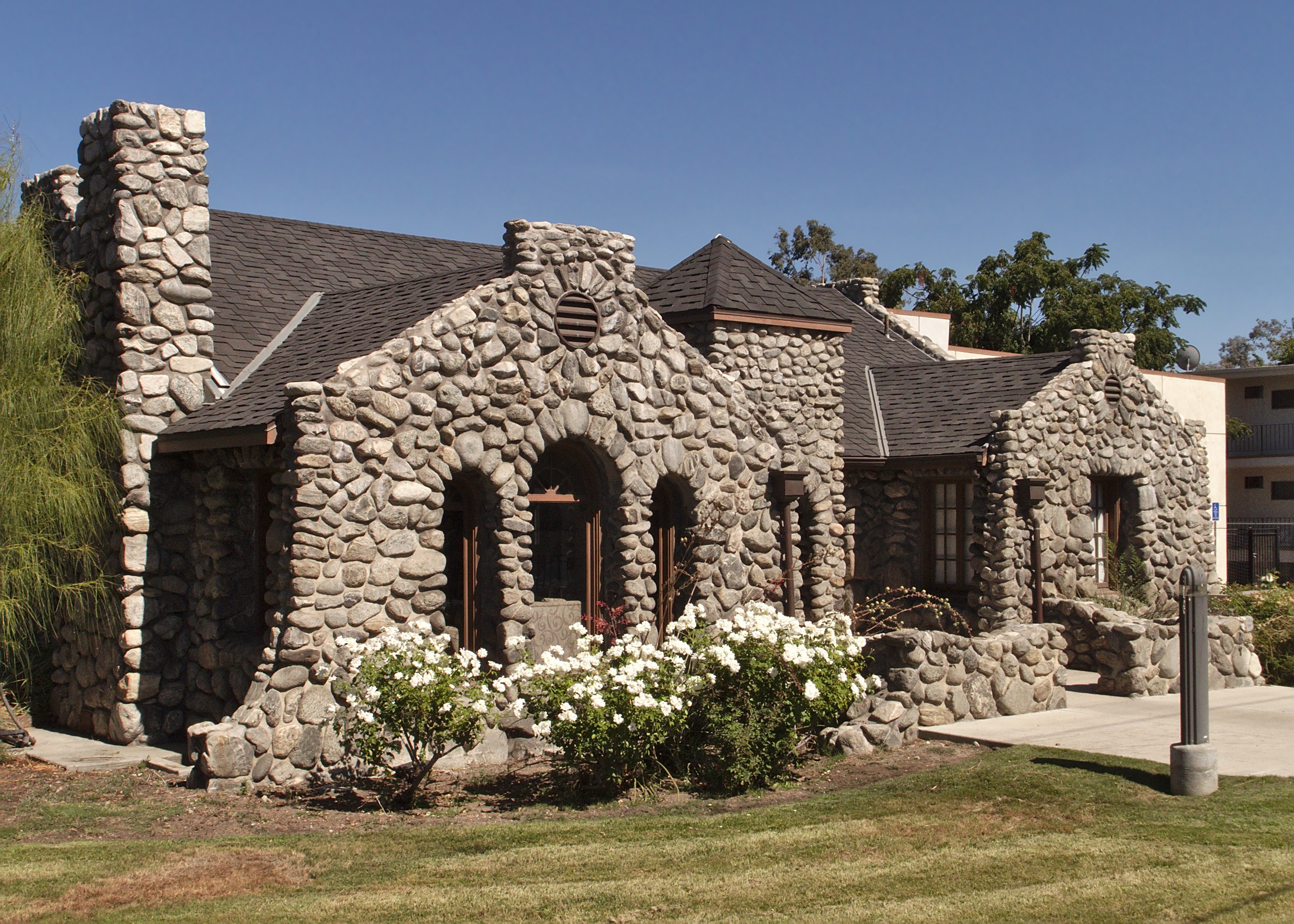 Stone House at 8642 Sunland Boulevard in Sun Valley, San Fernando Valley, Los Angeles, California. • Built in 1925 by local artisan Dan Montelongo, along with several other houses in the Stonehurst Historic Preservation Overlay Zone. It is a Los Angeles Historic-Cultural Monument (# 644).[1]